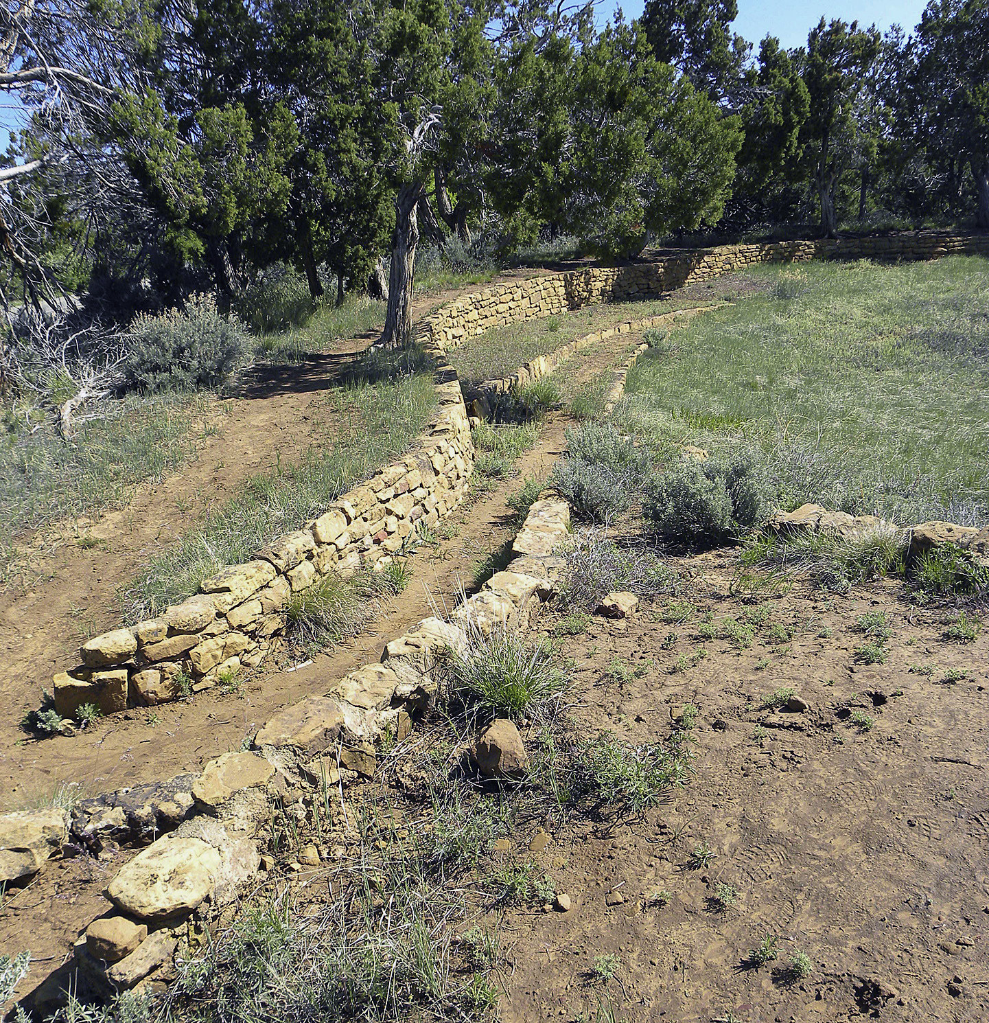 So called Farview reservoir, formerly called Mummy Lake at Mesa Verde National Park, Colorado USA. The structure was thought to be a reservoir to collect runoff for irrigation and drinking water. Recent research disputes this interpretation and identifies the structure as outdoor ceremonial space. This image shows the assumed water intake that is seen as a Chacoan procession road under the new interpretation.